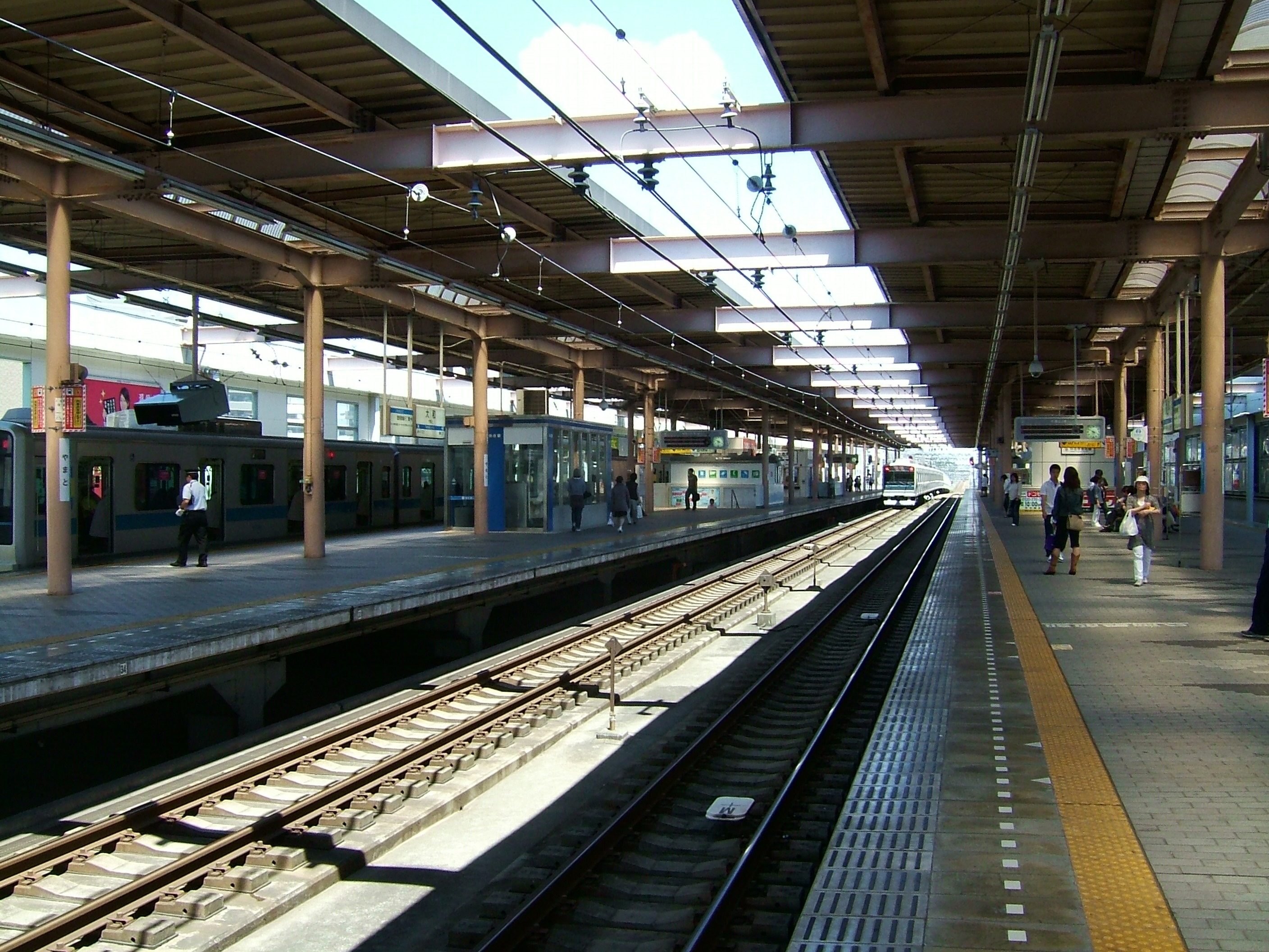 The platforms at Yamato Station on the Odakyu Enoshima Line